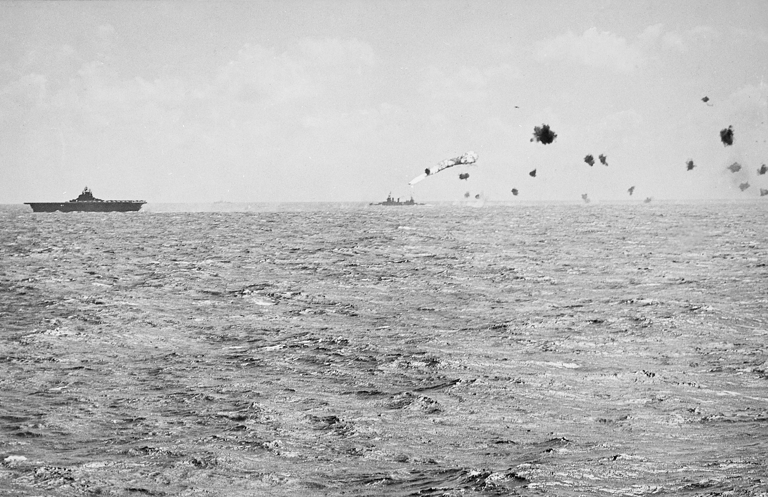 A Japanese plane is shot down over a U.S. Navy New Orleans-class heavy cruiser during the attacks on Kwajalein and Wotje atolls, 4 December 1943. The cruiser is probably USS San Francisco (CA-38), the carrier the USS Yorktown (CV-10). Both ships came under attack around 12:50 hrs, San Francisco shooting down two planes, Yorktown one.